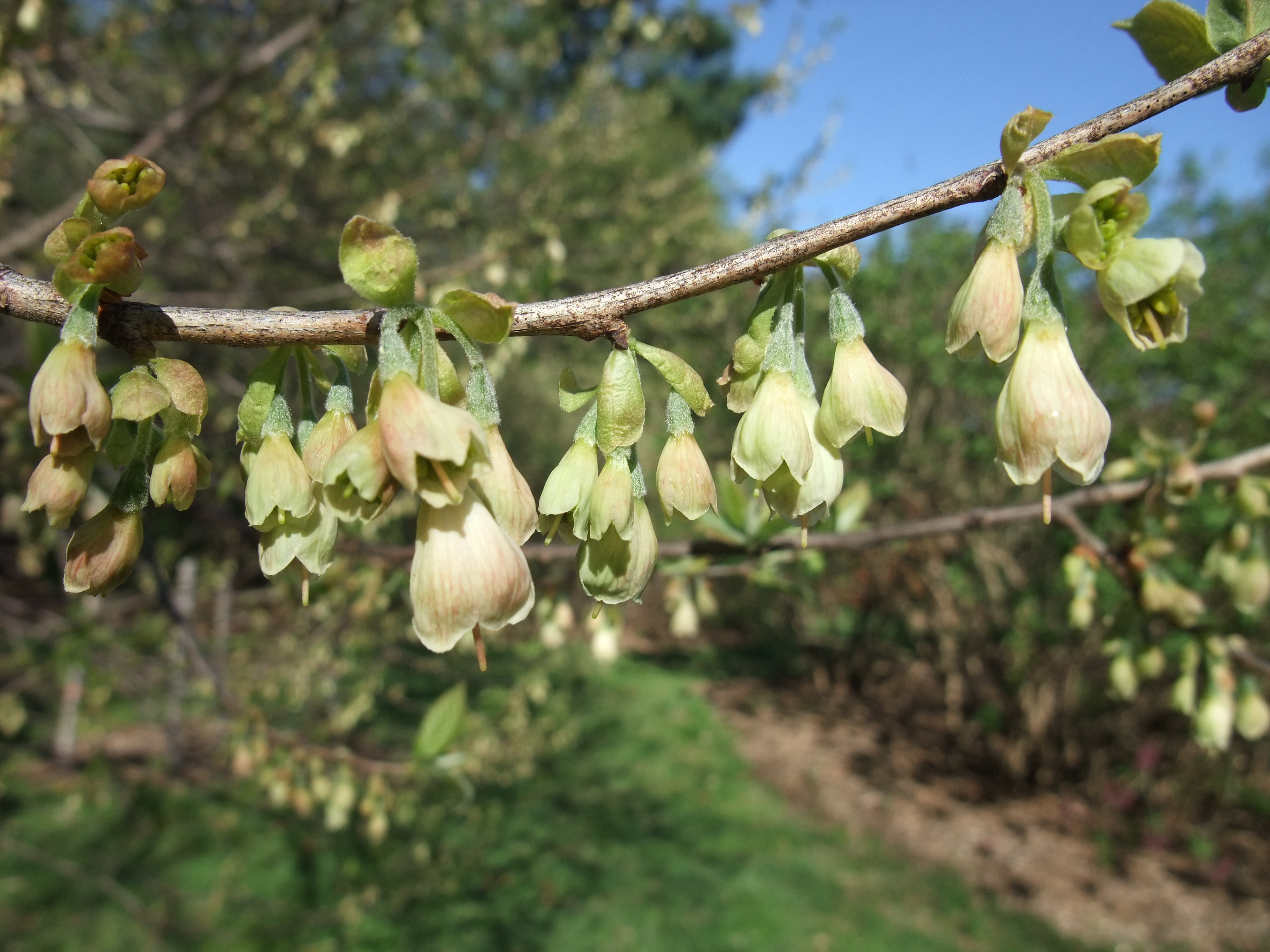 A photograph of the flowers of Halesia tetraptera.